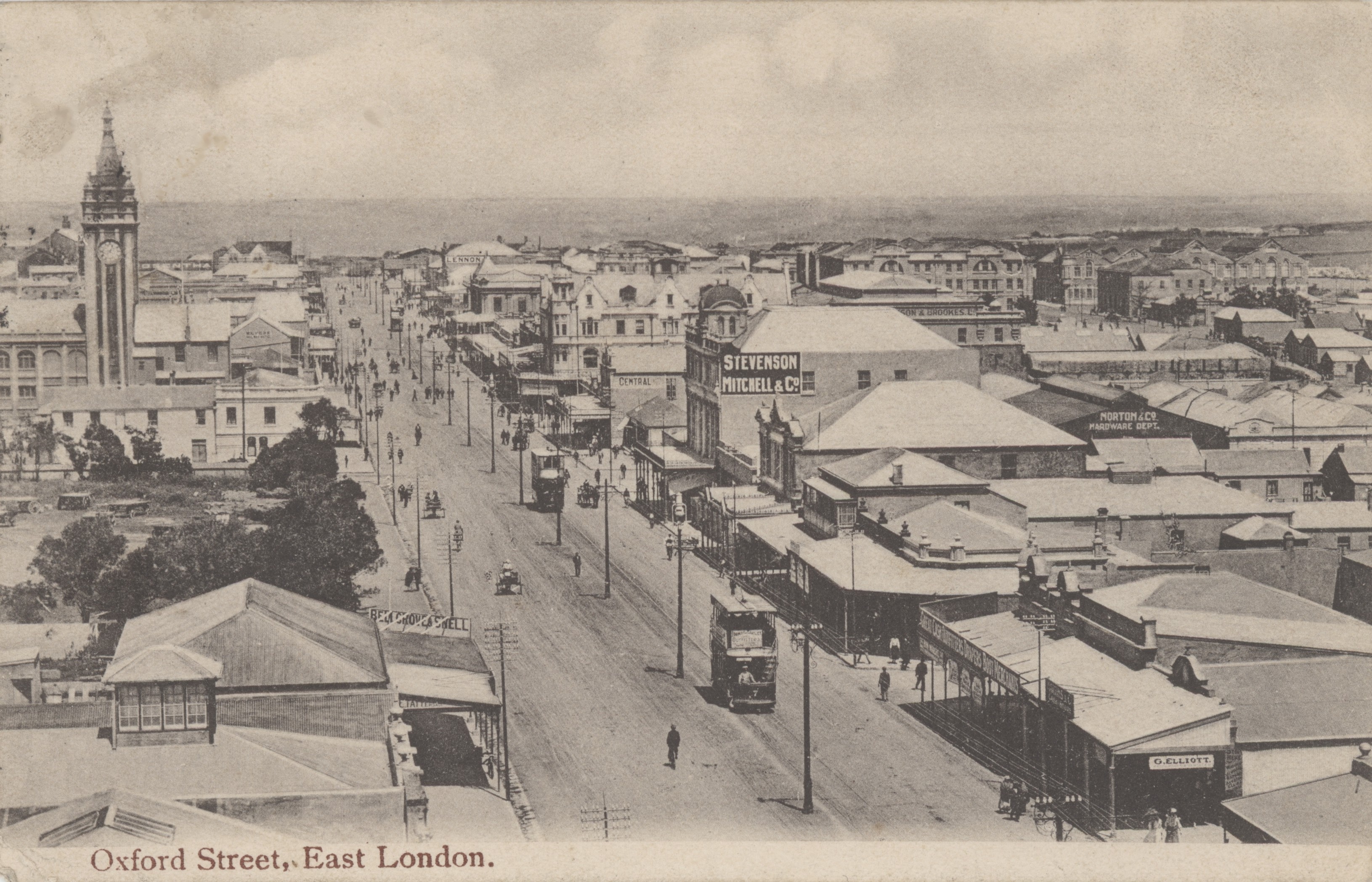 East London, Eastern Cape, South Africa (postcard, approximat 1900)